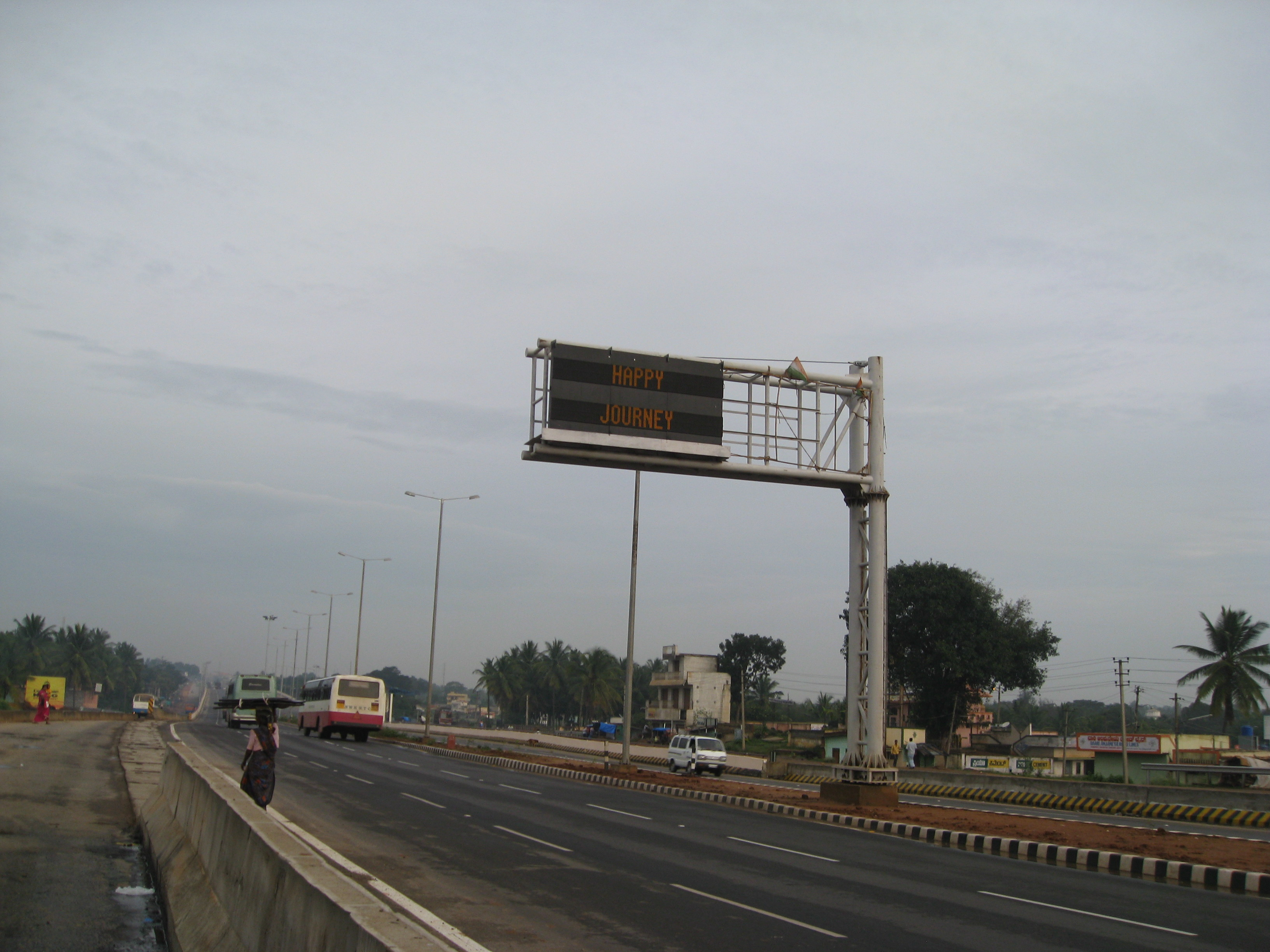 Vaiable Message Display Sign on Tumkur Road.